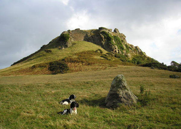 Castell Deganwy Castle. The ruined walls of Deganwy Castle surmount a crag of Ordovician rhyolitic tuff. The original castle was of wood, but it was destroyed by the Welsh lest it fall to the English. The present walls are what remains of reconstruction by Henry III from 1245, although it was again destroyed by the Welsh in 1283.